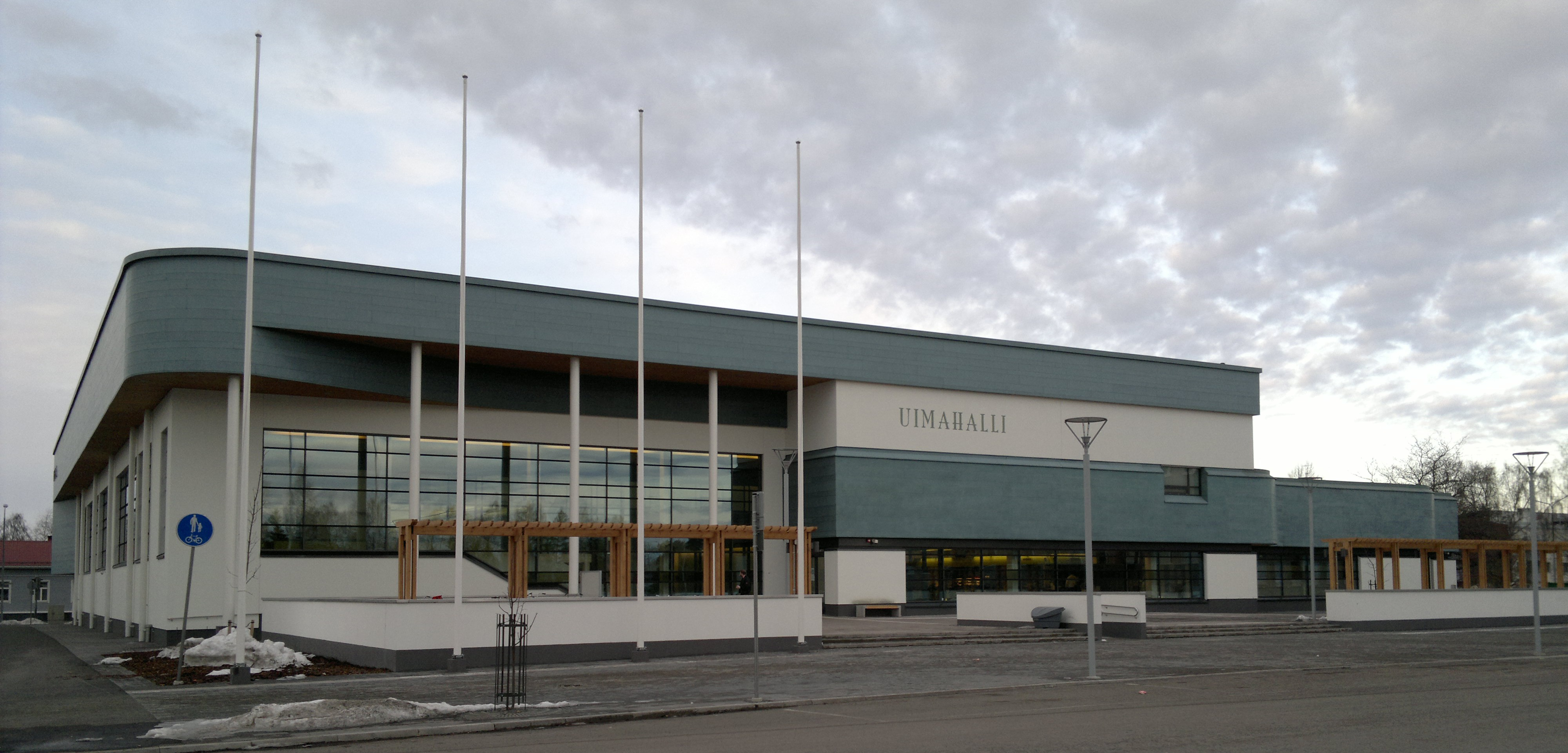 Pori city centre swimming hall.Built 2011